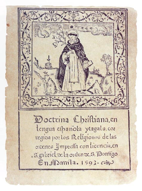 Doctrina Christiana is the first published book in the Philippines in 1593 at the Imprenta de los Dominicanos de Manila